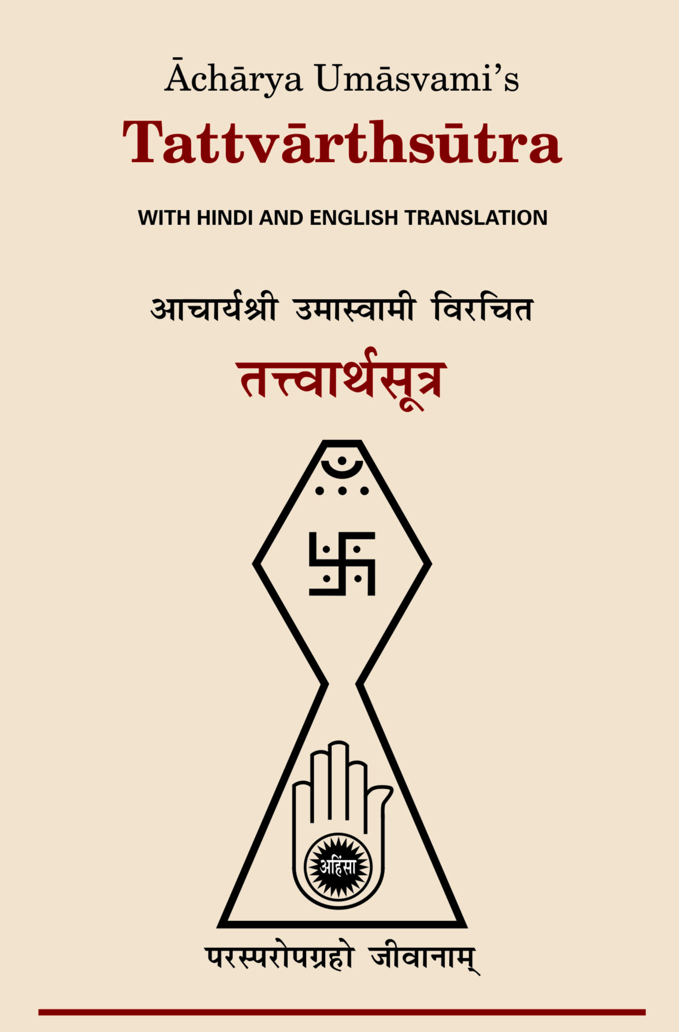 Book cover of the English translation of Tattvārthsūtra (